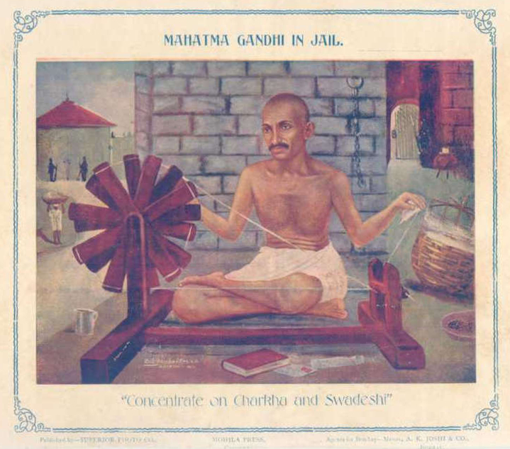 "Concentrate on Charkha and Swadeshi," bazaar art, 1930's Source: ebay, July 2009